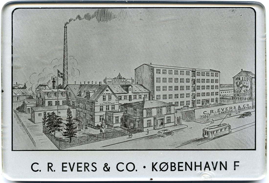 C. R. Evers & Co. 's factory on Nordre Fasanvej /then Østre Fasanvej) in Copenhagen, Denmark